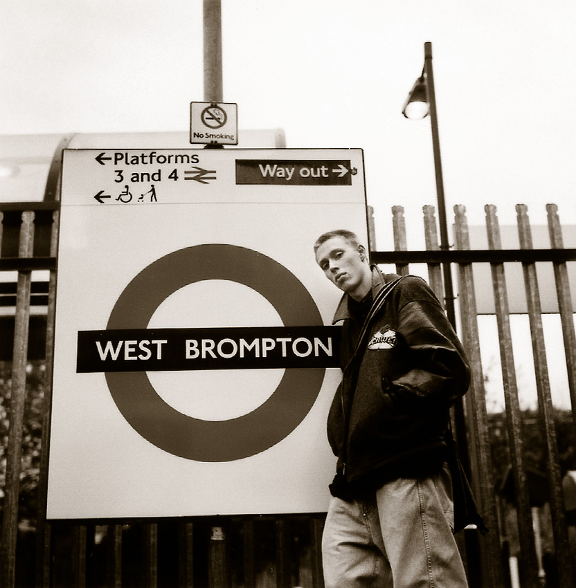 London 2002